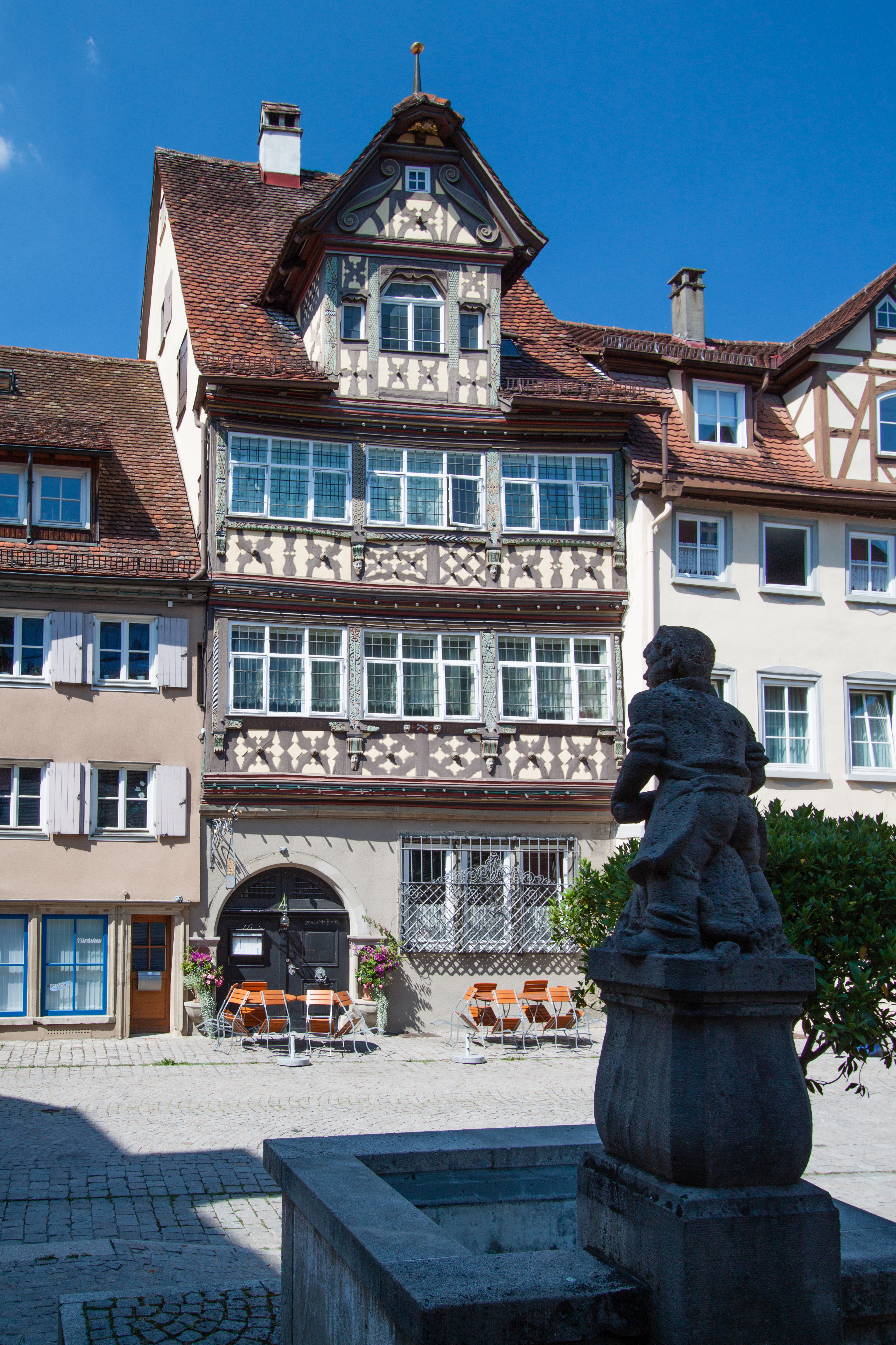 Graeterhaus in Schwaebisch Hall Germany